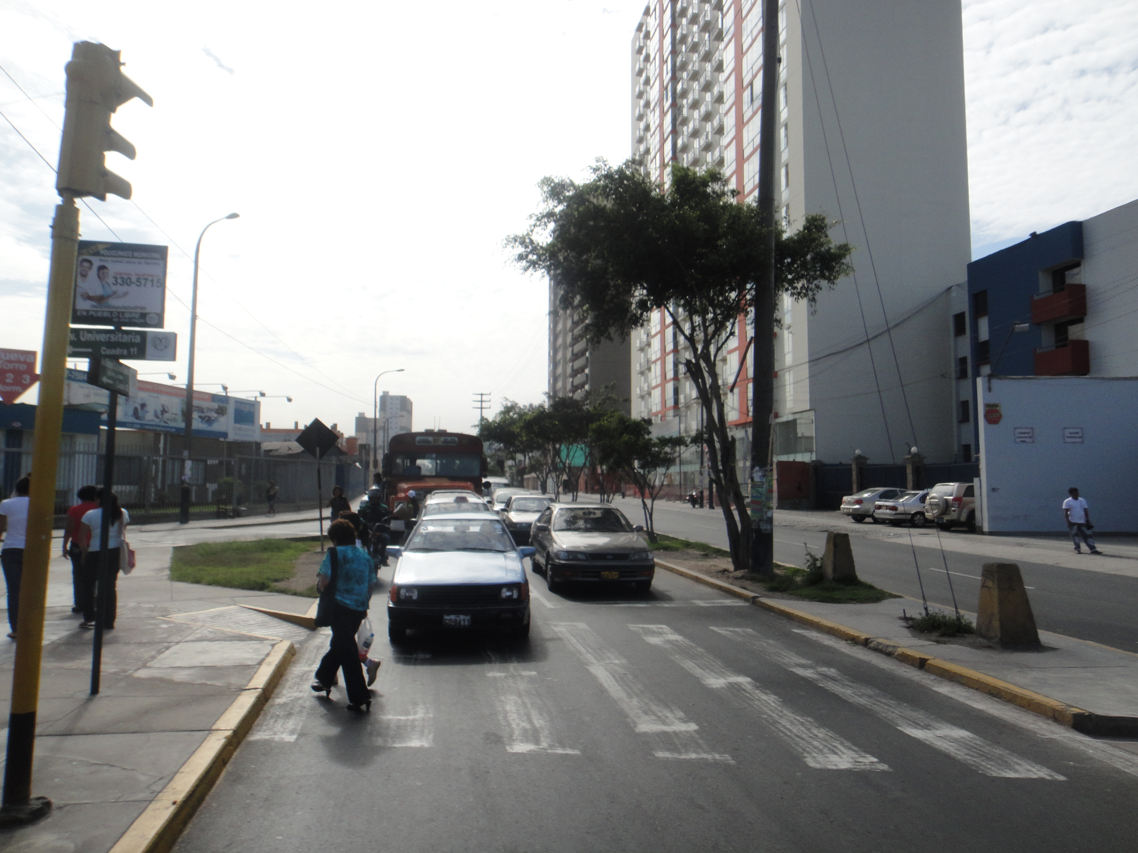 La Mar Ave., Pueblo Libre District in Lima, Peru.